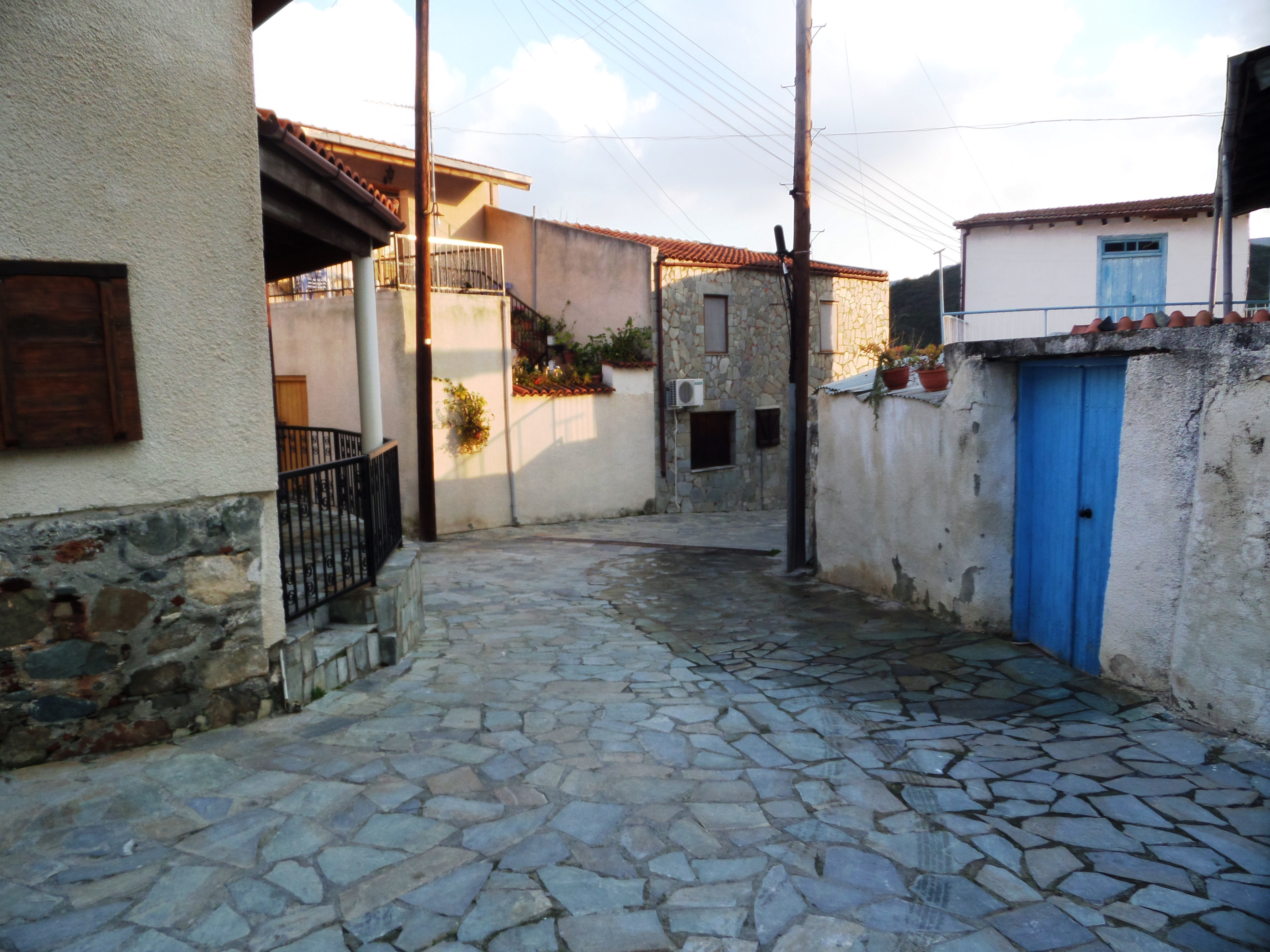 Place in Akapnou.